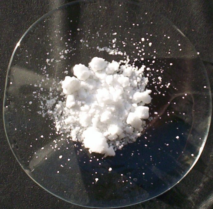 A sample of anhydrous potassium carbonate. Photo taken by User:Walkerma, summer 2005.